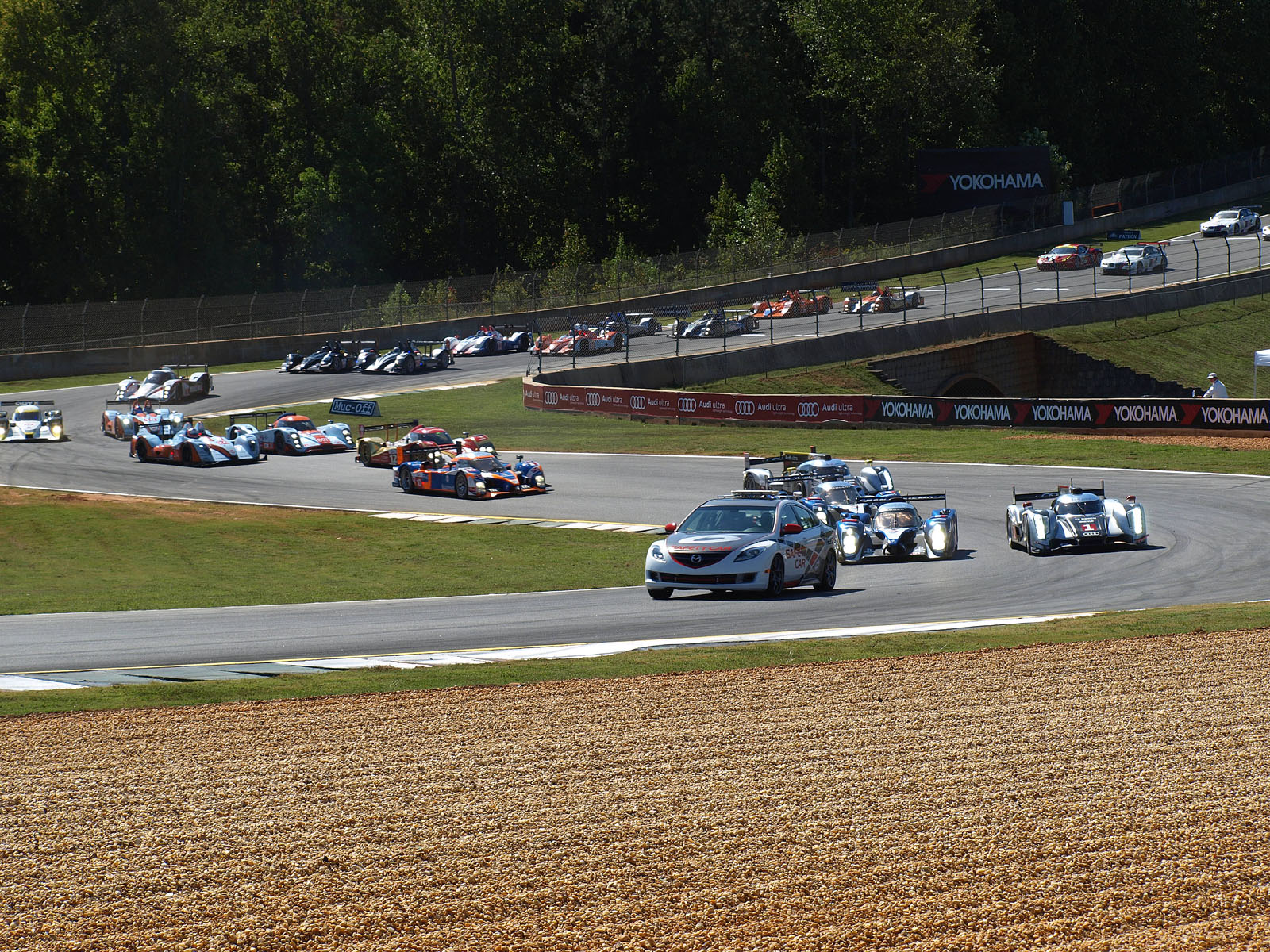 The field coming to the green flag at the 2011 Petit Le Mans at Road Atlanta.